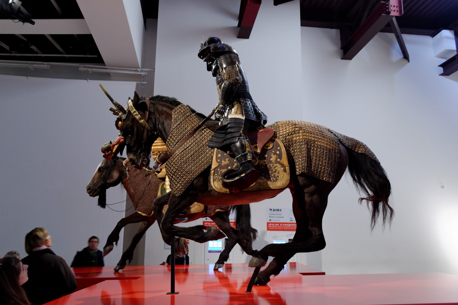 A re-creation of an armored samurai riding a horse, showing horse armour (uma yoroi or bagai), from The Musée du Quai Branly, Paris France, the collection of samurai armor from The Ann and Gabriel Barbier-Mueller Museum, Dallas (2011).